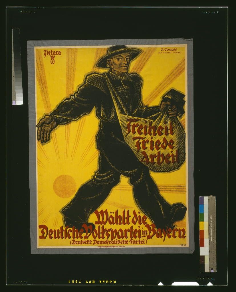 Title: Freiheit, Friede, Arbeit. Wählt die Deutsche Volkspartei in Bayern Abstract: Poster shows a farmer sowing seeds. Text: Freedom, Peace and Work. Elect the German People's Party in Bavaria (German Democratic Party). Physical description: 1 print (poster) : lithograph, color ; 94 x 71 cm. Notes: Zietara.; Title from item.